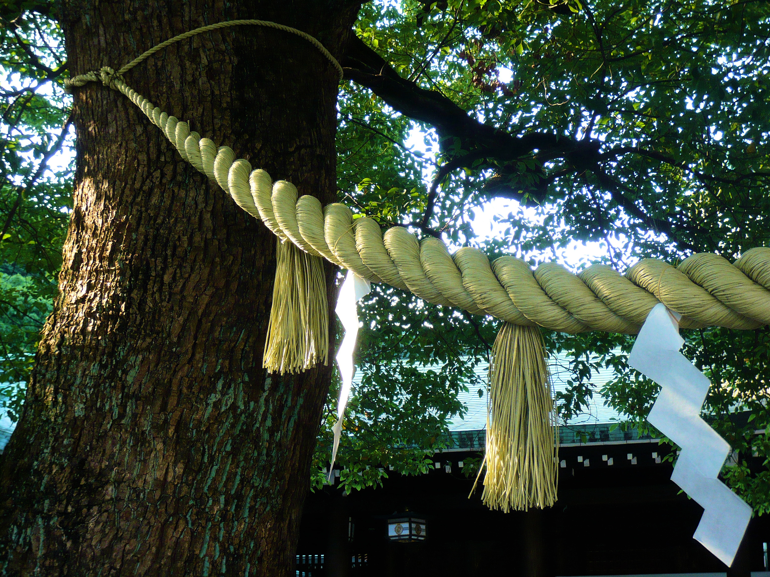 See where this picture was taken. ?